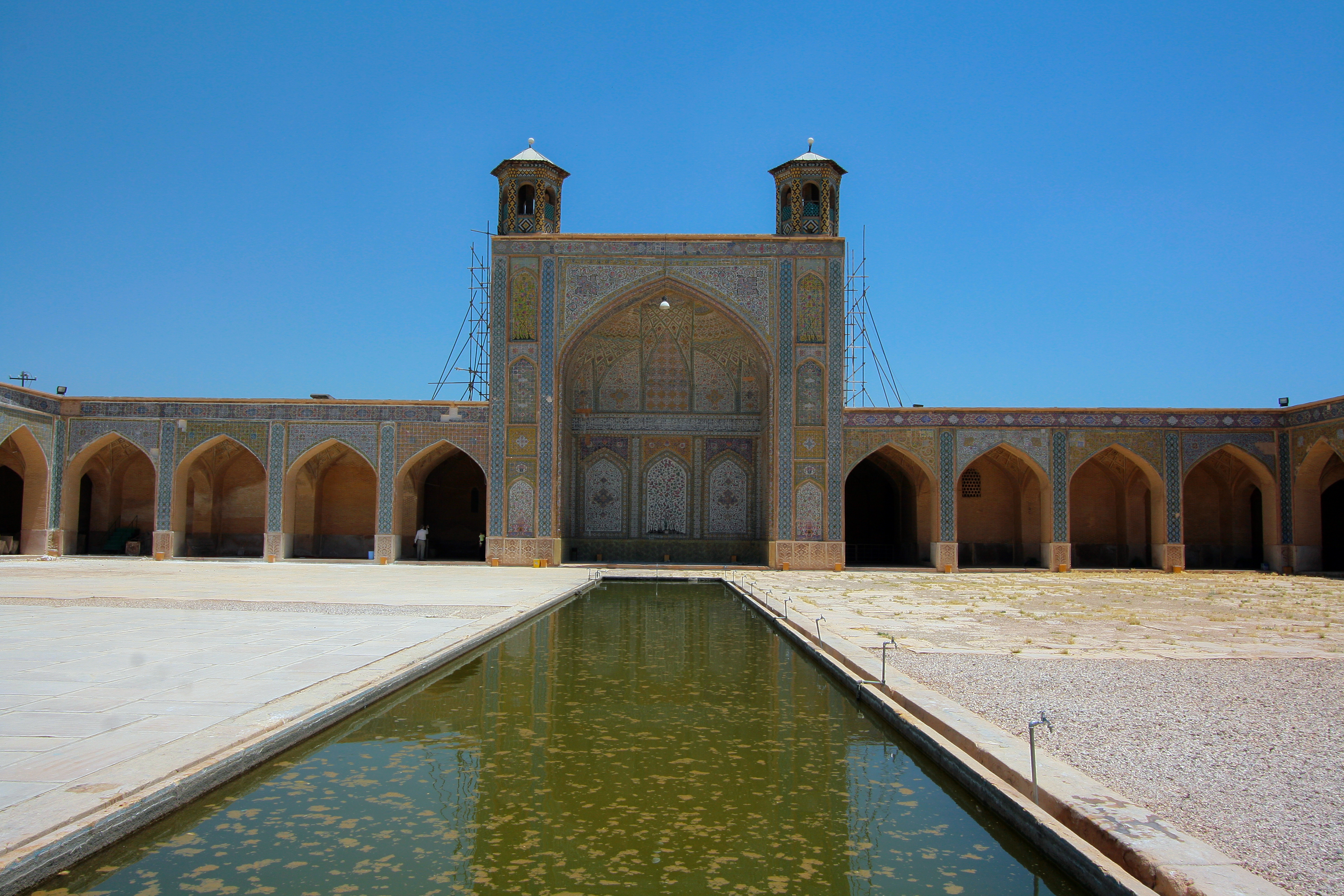 The Vakil Mosque is a mosque in Shiraz, southern Iran, situated to the west of the Vakil Bazaar next to its entrance. This mosque was built between 1751 and 1773, during the Zand period; however, it was restored in the 19th century during the Qajar period. Vakil means regent, which was the title used by Karim Khan, the founder of Zand Dynasty. Shiraz was the seat of Karim Khan’s government and he endowed many buildings, including this mosque.